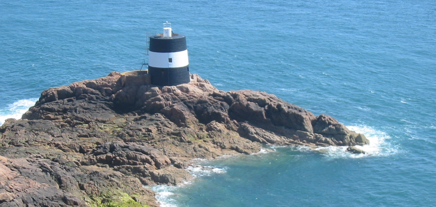 Jersey